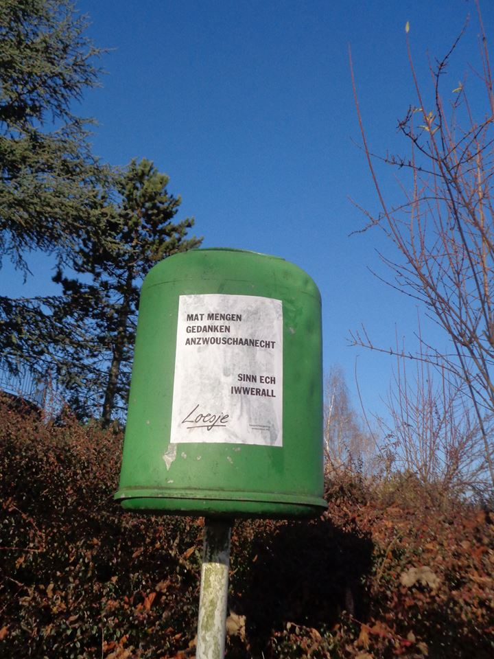 Loesje poster in Luxembourgish